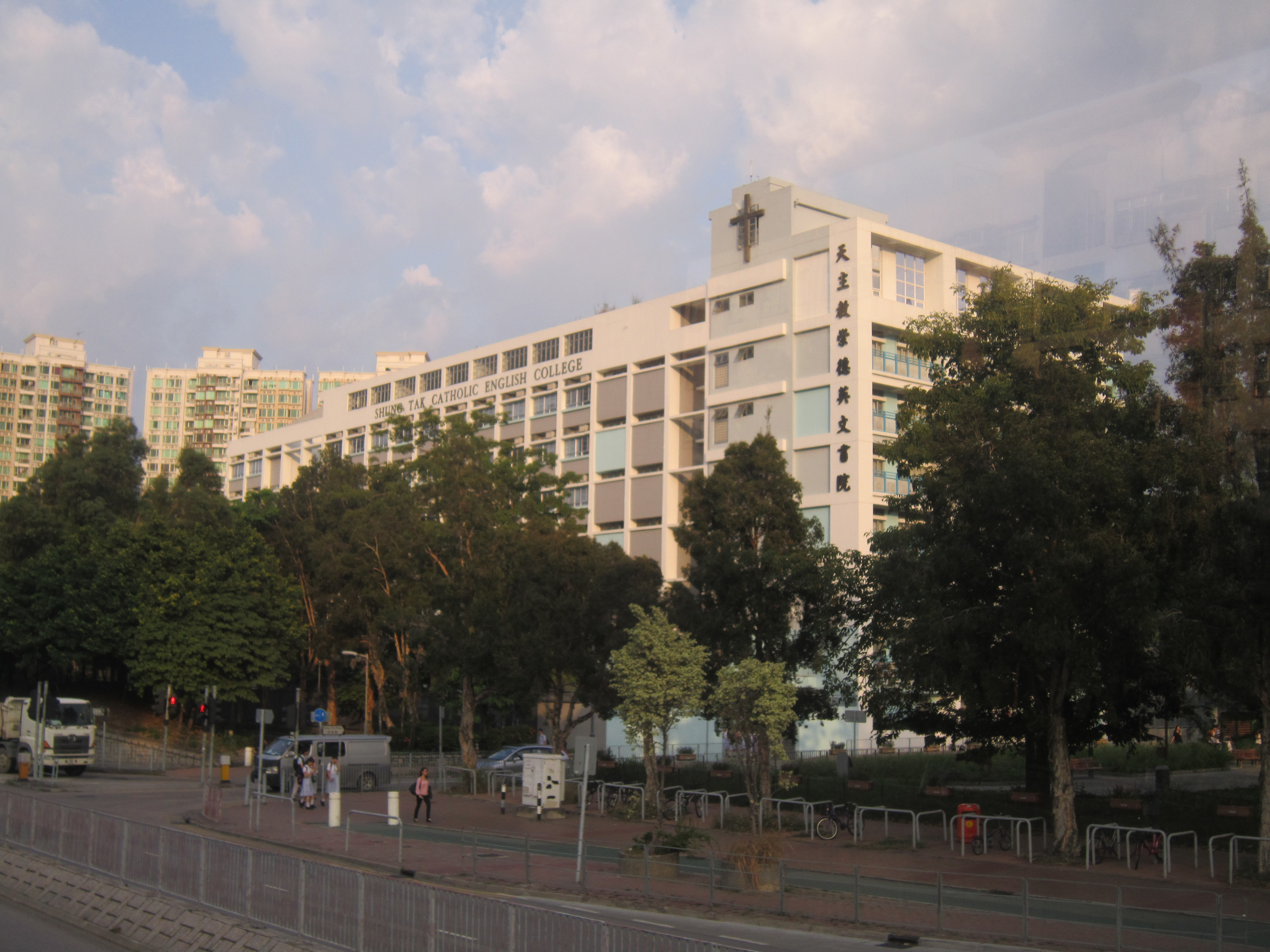 Shung Tak Catholic English College